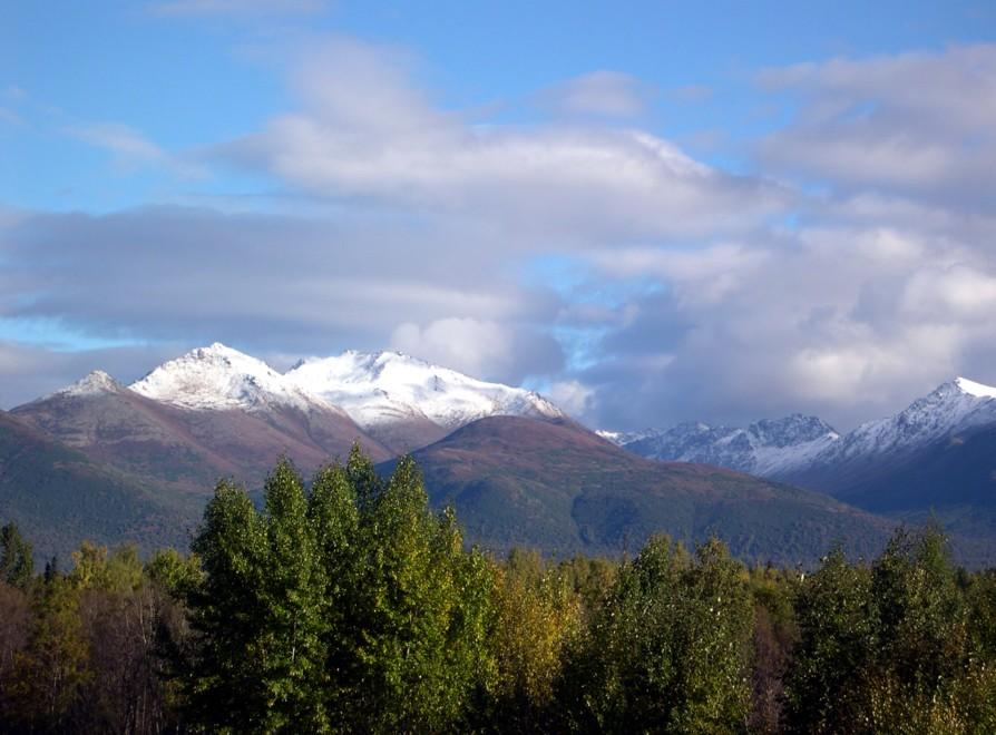 First winter snowfall on the Chugach Mountains, Anchorage, Alaska (September 2005). Photo by Peter Rimar.